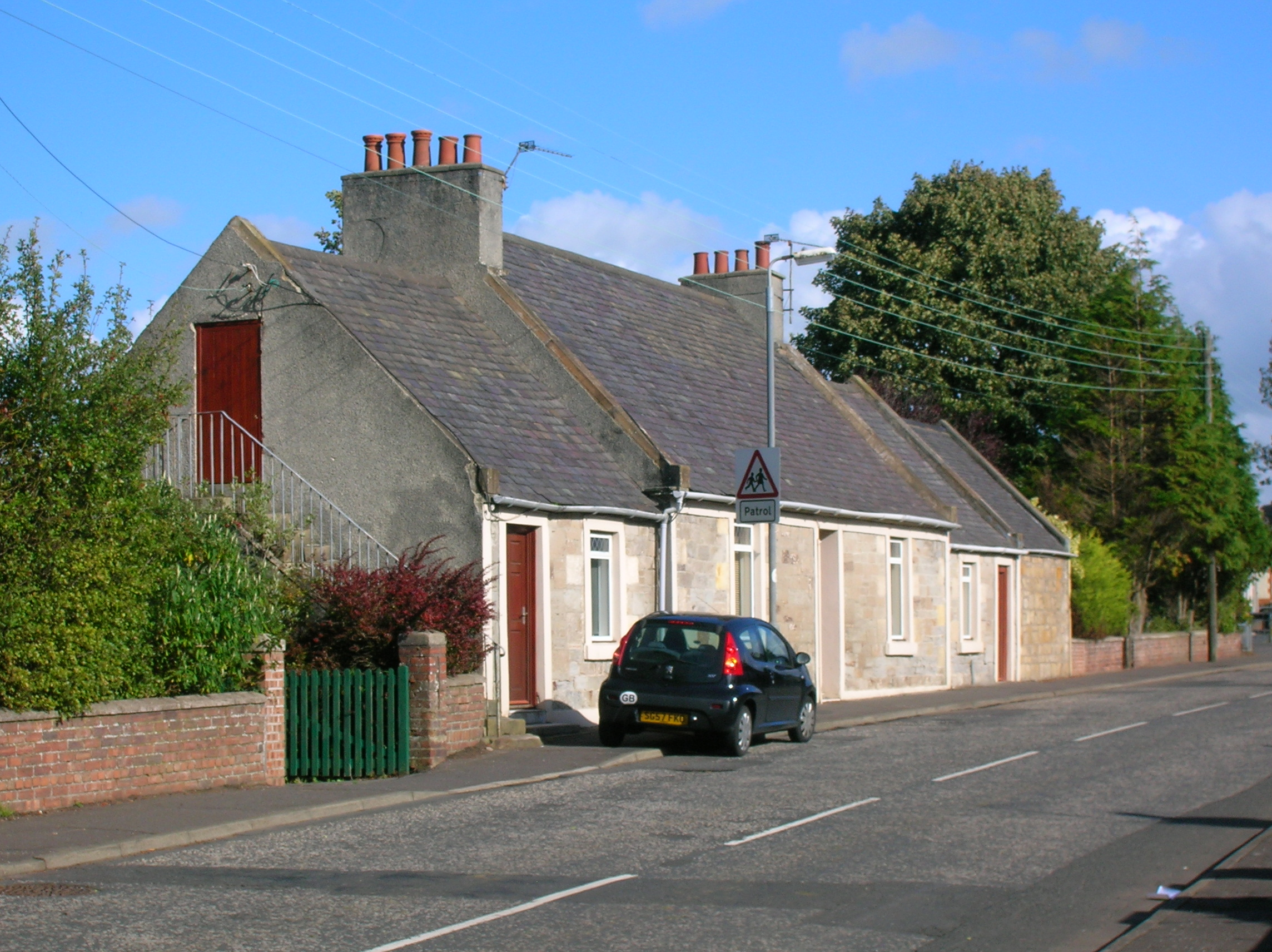 Kenneth's Castle, Kilwinning, Ayrshire, Scotland.